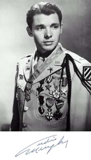 Audie Murphy (signature removed) U. S. Army publicity photo taken after Murphy's 1948 trip to Paris to receive the Chevalier légion d'honneur and Croix de guerre with palm